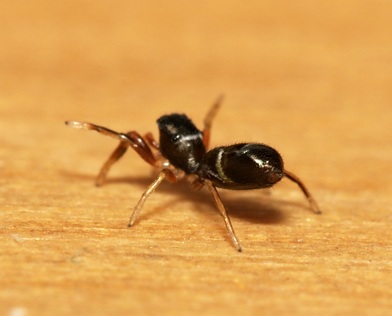 Synageles venator caught in Cologne Zoo, Germany.